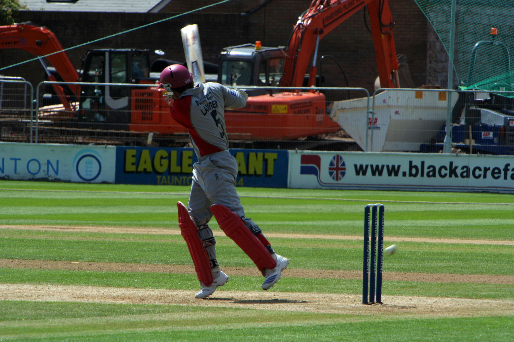 Justin Langer at Taunton, on the attack.